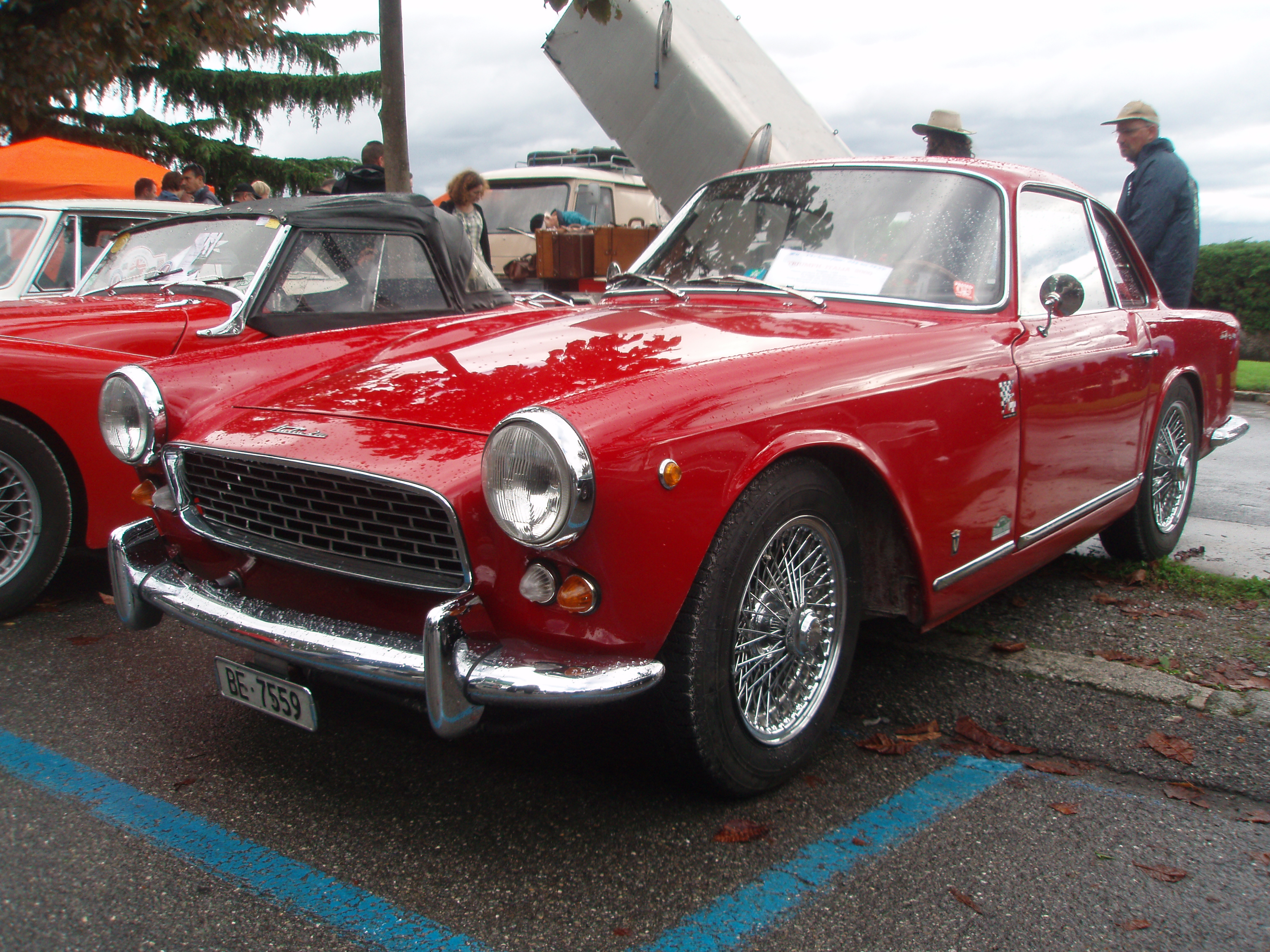 1959 red Triumph Italia 2000. There were 318 Italias produced from 1959 to 1962, using TR3 chassis and 4-cylinter, 1997cm³ engine on a Vignale-made, Michelotty-styled coupé body. The present car, Italia n°16, was sold to Sicily, is now in Switzerland where it underwent a total restauration from 2002 to 2008.